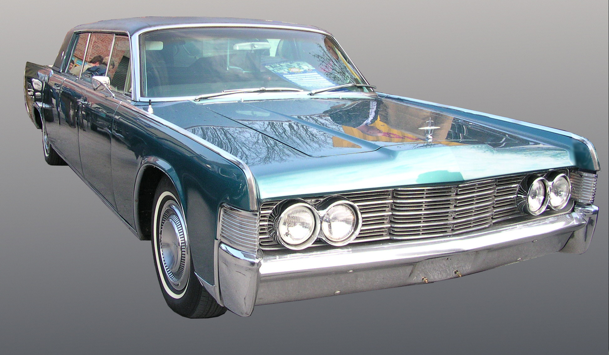 Essen Techno-Classica 2007, Lincoln Continental Mark III long (1965)